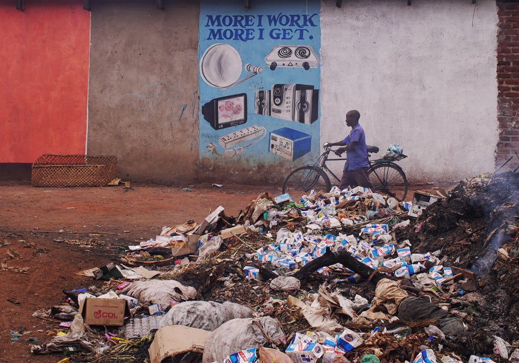 Mural and refuse zone in Chipata, Zambia